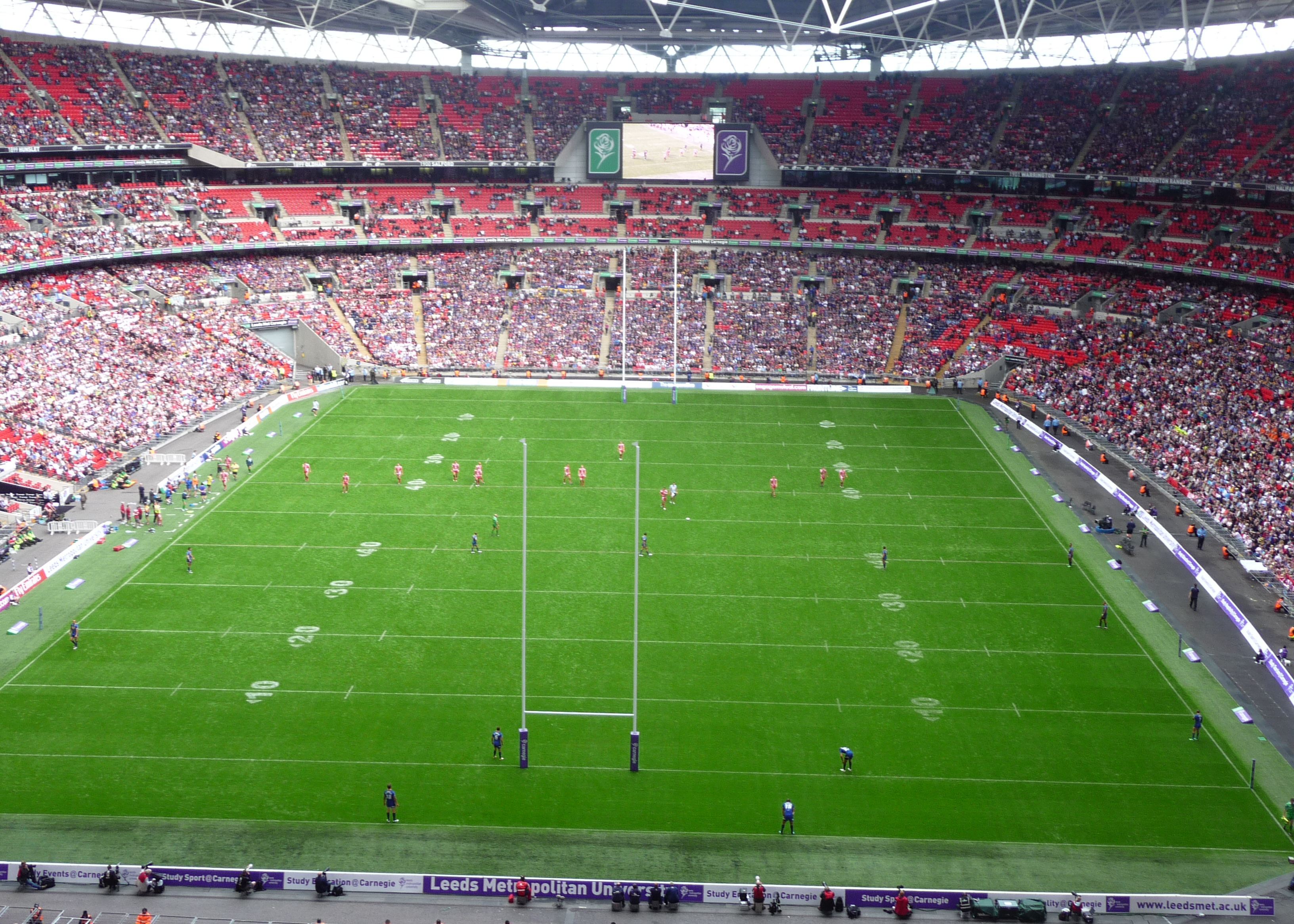 Wembley Stadium. Pictured in August 2011 during the rugby league Challenge Cup final between Wigan Warriors and Leeds Rhinos.